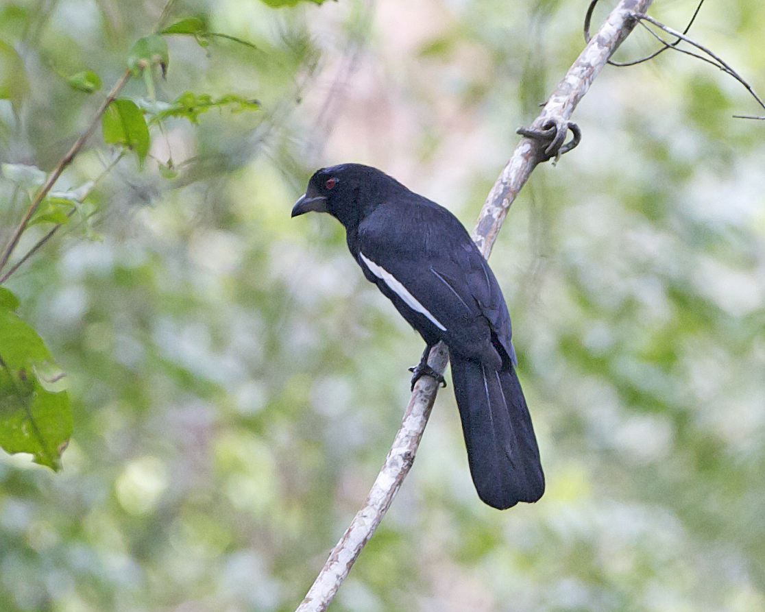 Black Magpie, Platysmurus leucopterus Panti Forest, Johor, Malaysia 22nd. April 2011